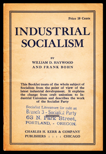 Cover of Industrial Unionism by Big Bill Haywood and Frank Bohn